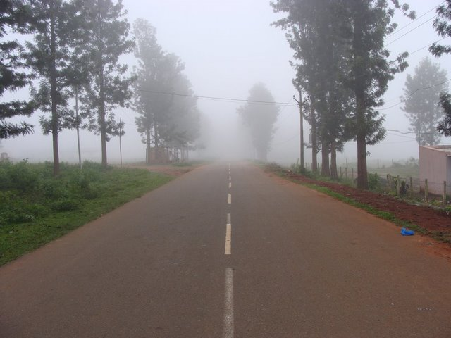 Araku Valley.